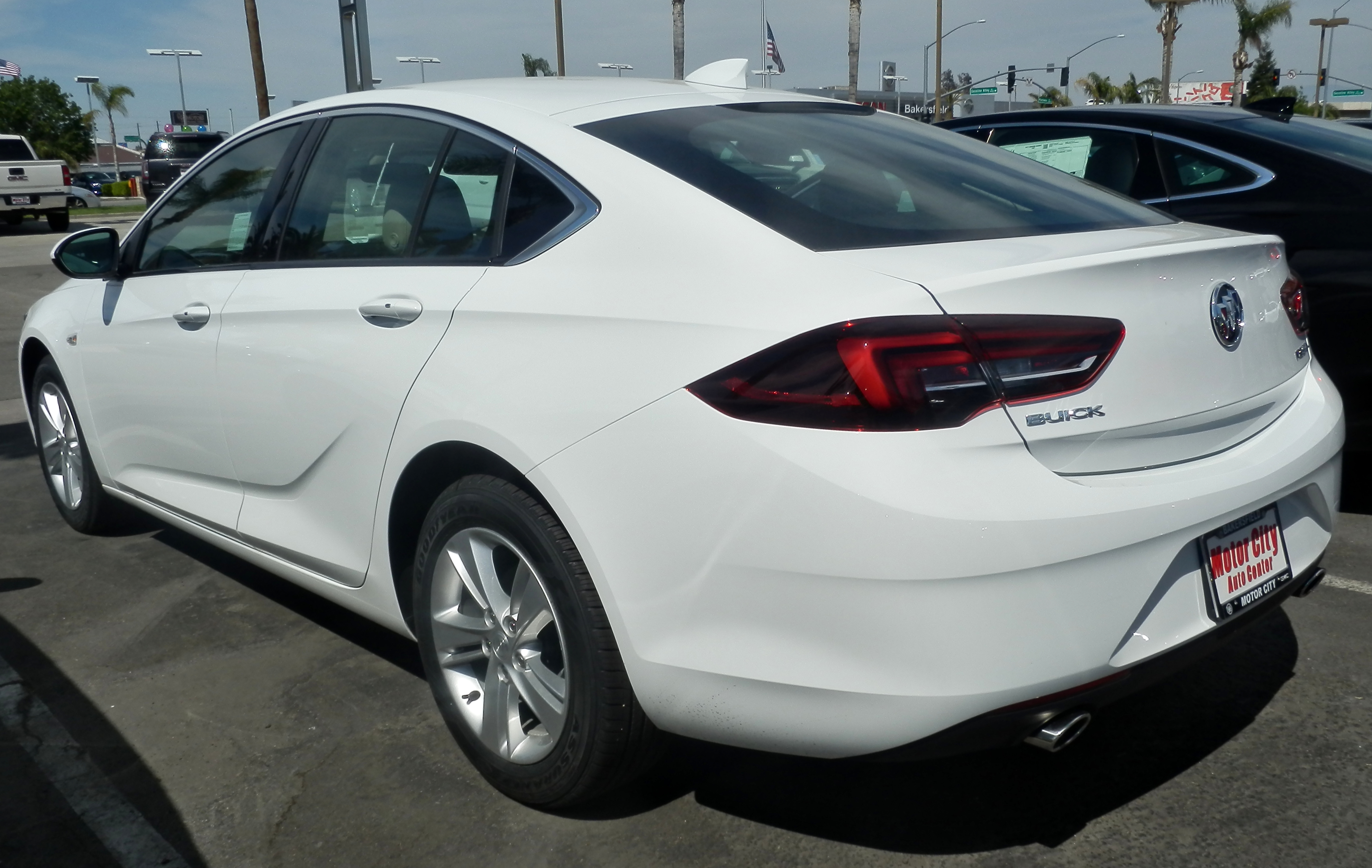 Buick Regal in Bakersfield